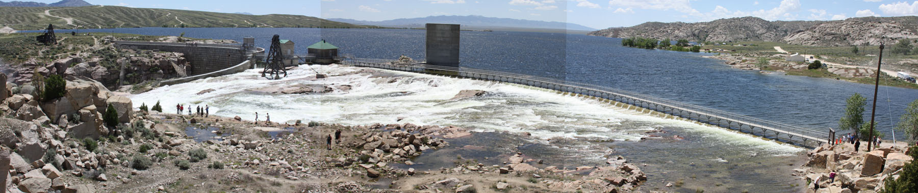 Description on site - Inflows to the Pathfinder Reservoir from a combination of snow melt and a severe rainstorm increased reservoir water levels to capacity, which allowed for water to be released over the uncontrolled portion of the spillway for the first time since 1984. The dam is located 45-miles southwest of Casper, Wyoming.